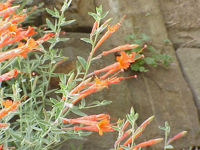 Species: Epilobium canum angustifolium Family: Onagraceae Image No. 2